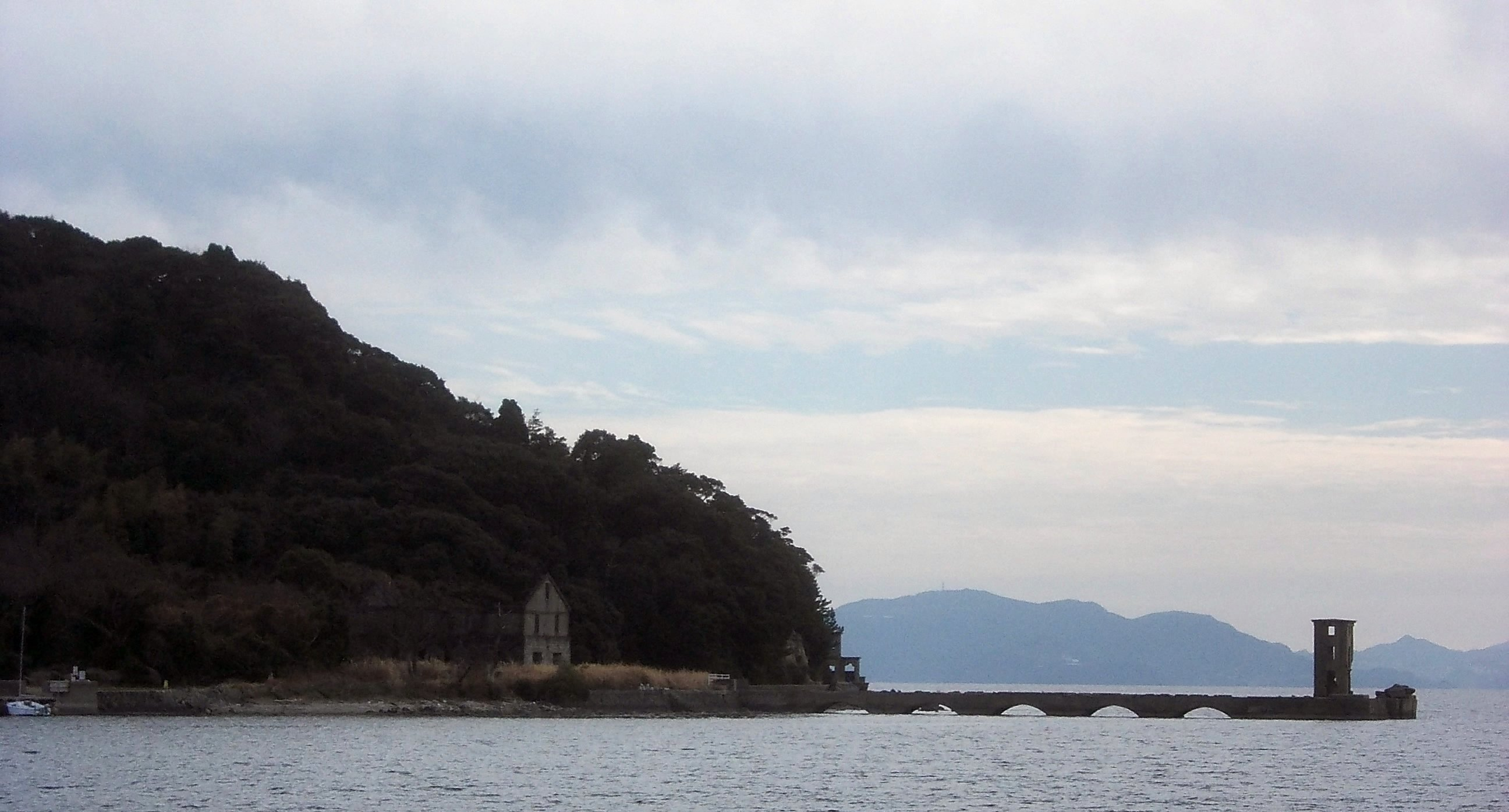 The ruin of Katashima Torpedo Base, Kawatana, Nagasaki, Japan